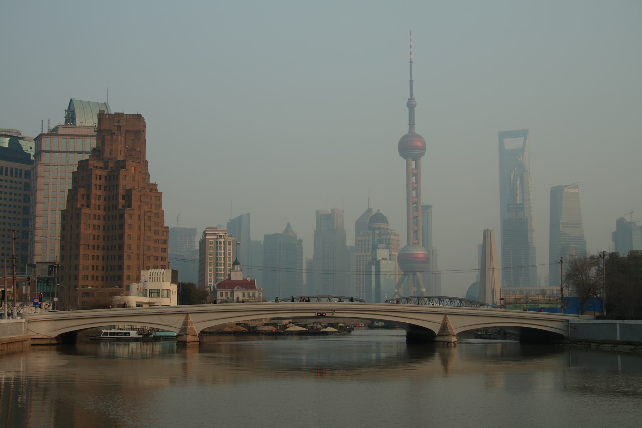 zhapu road bridge